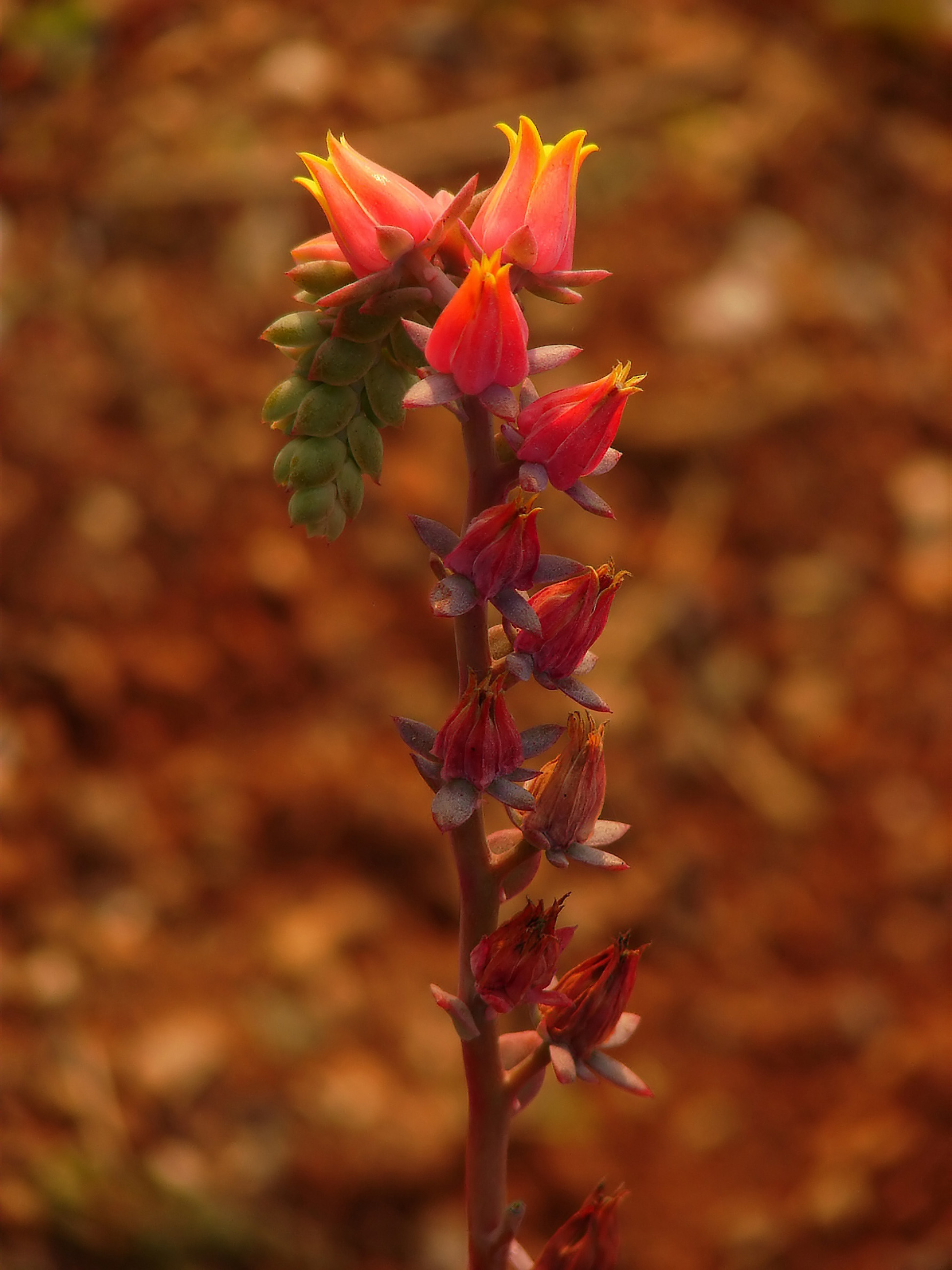 Rosularia Flower.